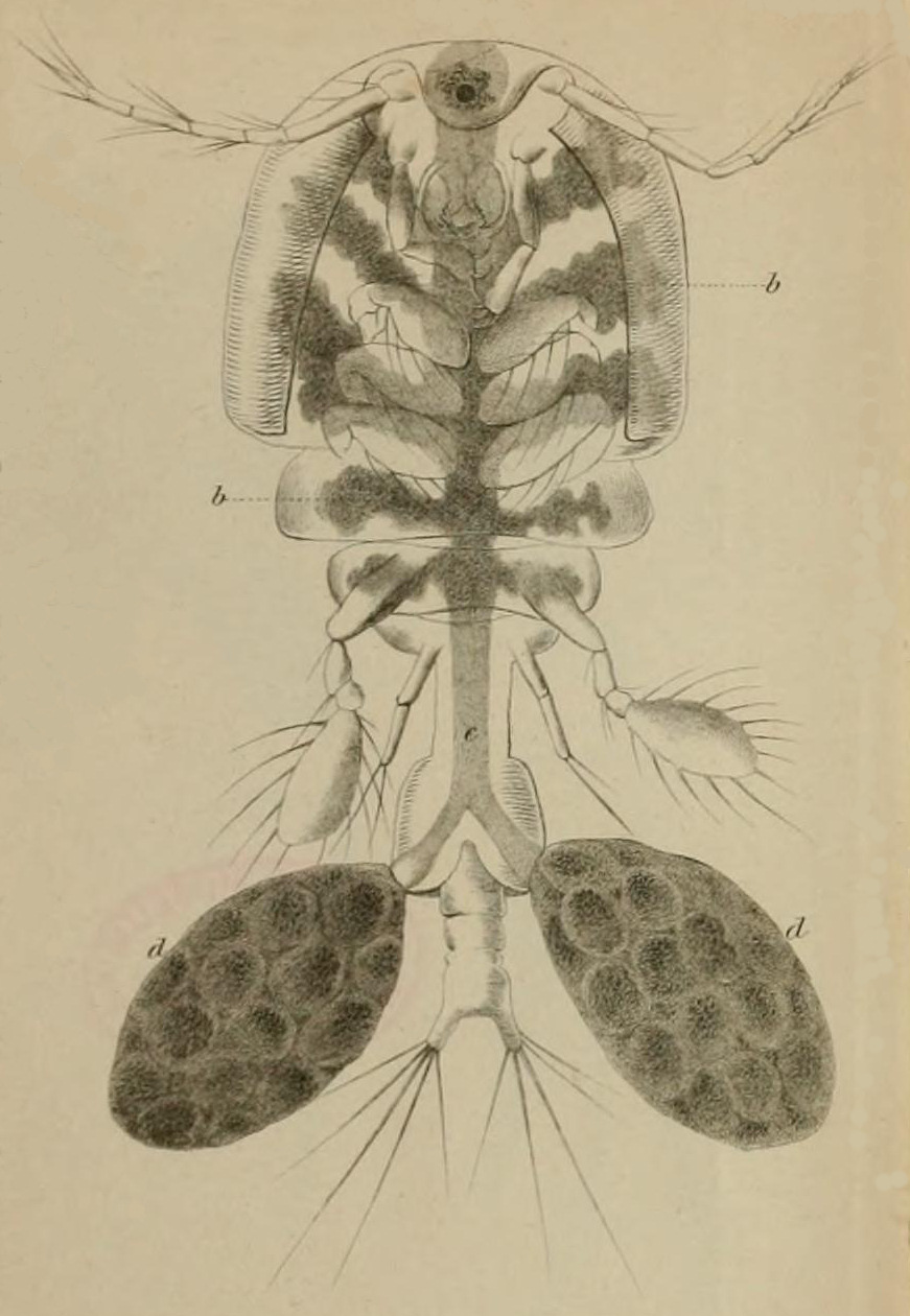 Doridicola agilis female, underside, as depicted by Leydig in the 1853 protologue.